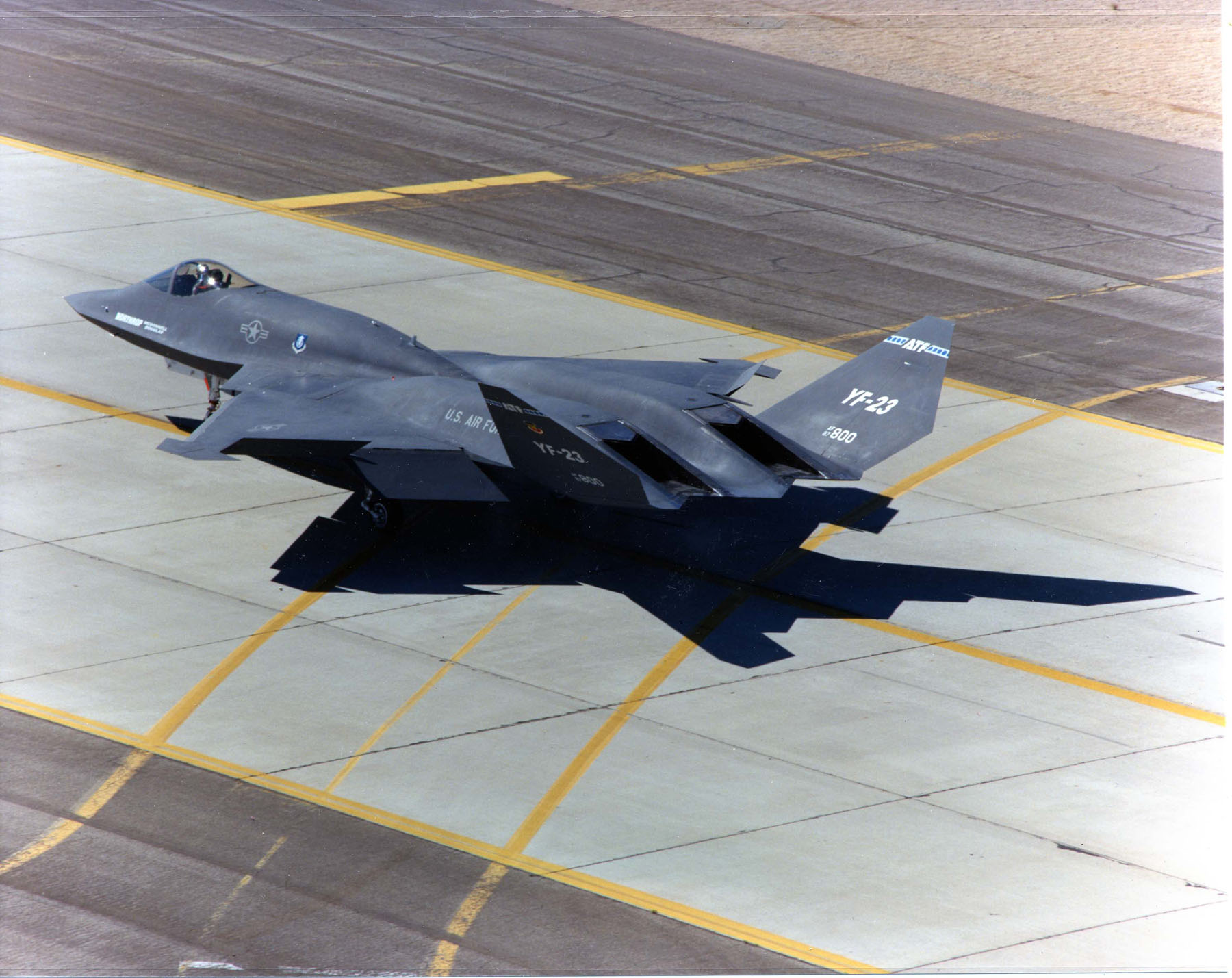 Northrop-McDonnell Douglas YF-23. (U.S. Air Force photo)